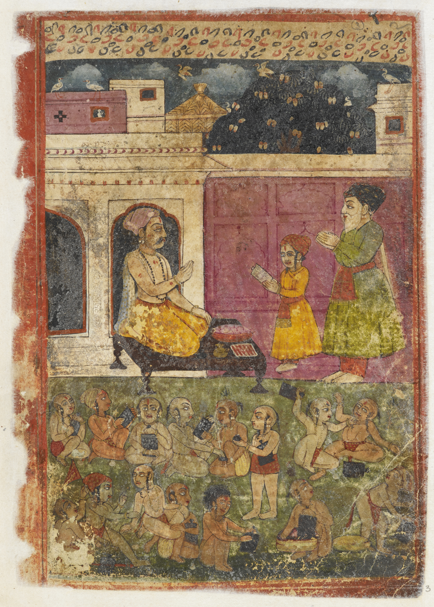 Baba Nanak goes to school; a painting by Alam Chand Raj, 1733* (BL)